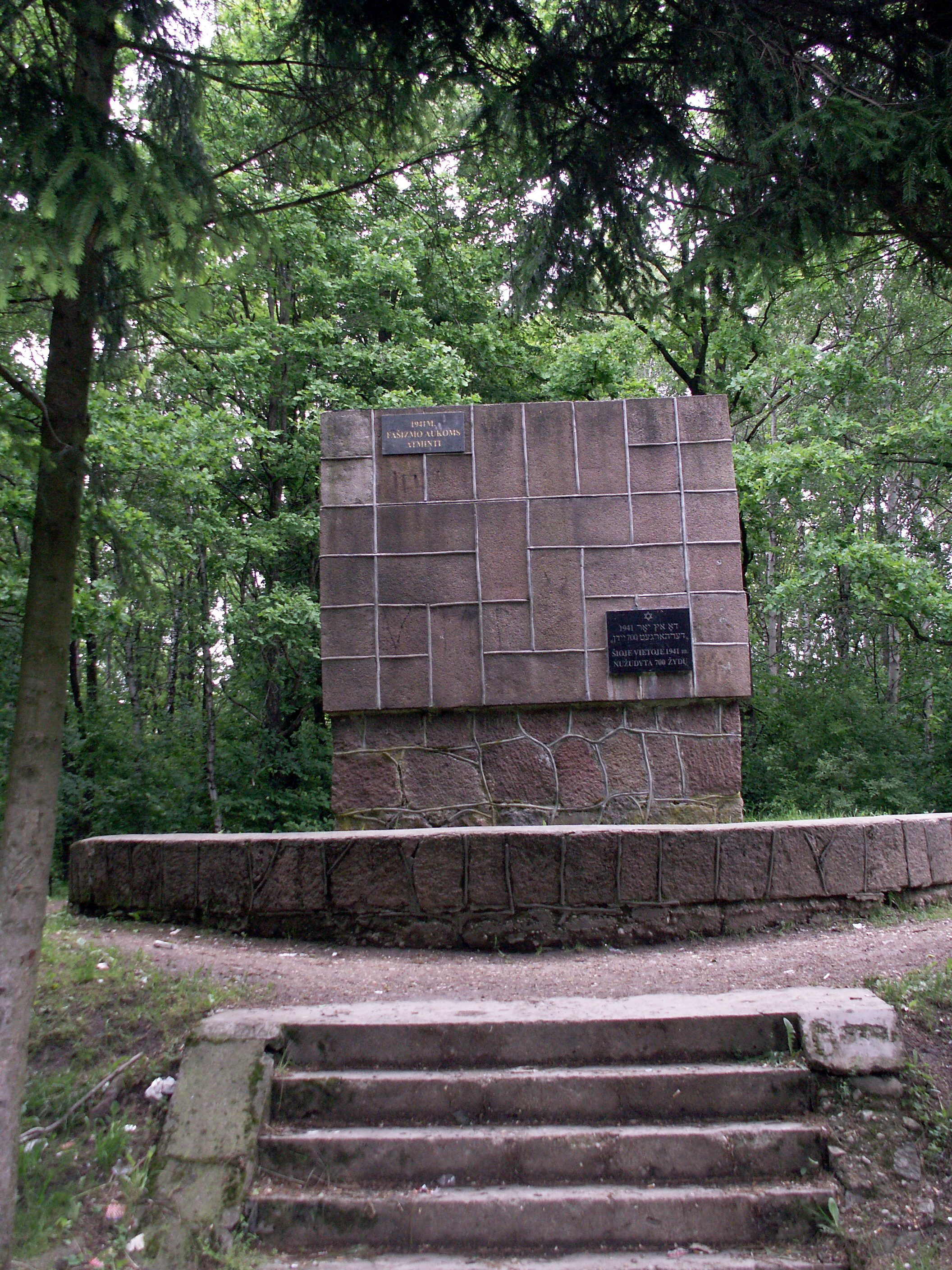 Monument 1941 holocost, Kveciai, Kretinga district, Lithuania